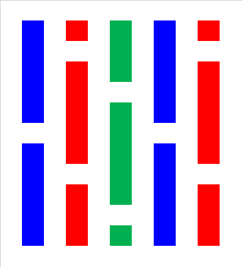 Coloring for LELELE-style triple patterning.